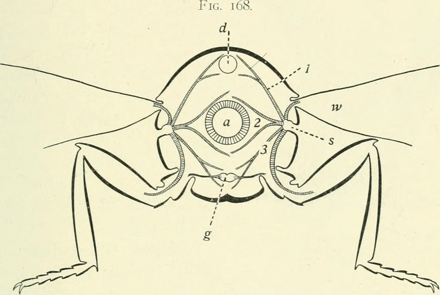 Title: Entomology : with special reference to its biological and economic aspects Year: 1906 (1900s) Authors: Folsom, Justus Watson, 1871-1936 Subjects: Entomology Publisher: Philadelphia : P. Blakiston's Son Text Appearing Before Image: Tracheal system of an insect, a, an-tenna; b, brain; /, leg; 11, nerve cord;p, palpus; s, spiracle; st, spiracular, orstigmatal, branch; t, main tracheal trunk;V, ventral branch; is, visceral branch.—After KoLBE. ANATOMY AND PHYSIOLOGY 133 9. Respiratory SystemIn insects, as contrasted with vertebrates, the air itself isconveyed to the remotest tissues by means of an elaborate sys-tem of branching air-tuljes, or iracJiccv, which receive airthrough paired segmentally-arranged spiracles. Each spiracleis commonly the mouth of a short tube which opens into amain tracheal trunk (Fig. 167) extending along the side of Text Appearing After Image: Diagrammatic cross section of the thorax of an insect, a, alimentarj canal; d,dorsal vessel; g, ganglion; s, spiracle; w, wing; /, dorsal tracheal branch; 3, visceralbranch; 3, ventral branch. the body. From the two main trunks branches are sent whichdivide and subdivide until they become extremelv delicatetubes, which penetrate even between muscle fibers, between theommatidia of the compound eyes and possibly enter cells. Inmost cases each main longitudinal trunk gives off in each seg-ment (Fig. 168) three large branches: (i) an upper, or dor-sal, branch, which goes to the dorsal muscles; (2) a middle,or visceral, branch, which supplies the alimentary tract and thereproductive organs; (3) a lower, or ventral, branch, whichpertains to the ventral ganglia and muscles. In many swiftly-flying insects (dragon flies, beetles, moths,flies and bees) there occur tracheal pockets, or air-sacs, which 134 ENTOMOLOGY Fig. 169. were formerly and erroneously supposed to diminish theweight of the in